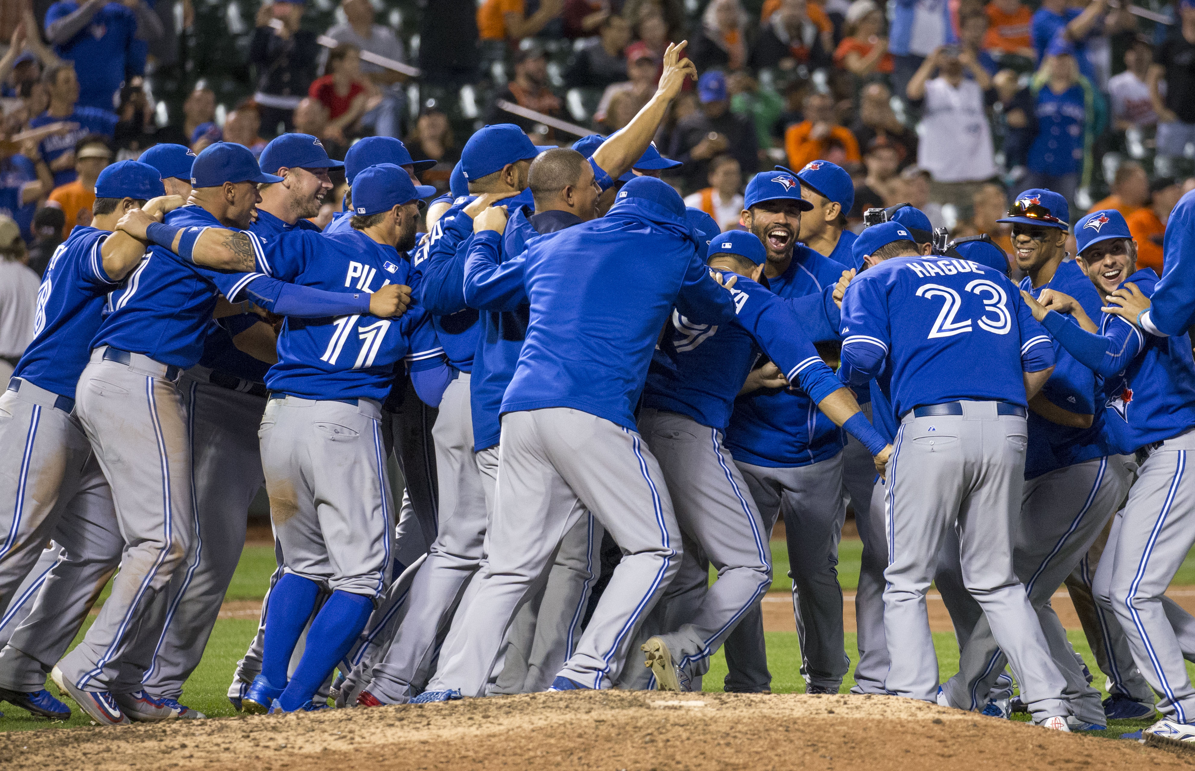 The Toronto Blue Jays clinch the 2015 American League East division